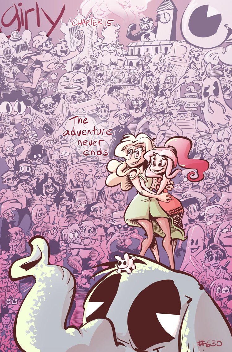 Cropped version of the title page originally featured at . This image was created and uploaded to both the original website and to Wikipedia by Josh Lesnick (SuperHappy)